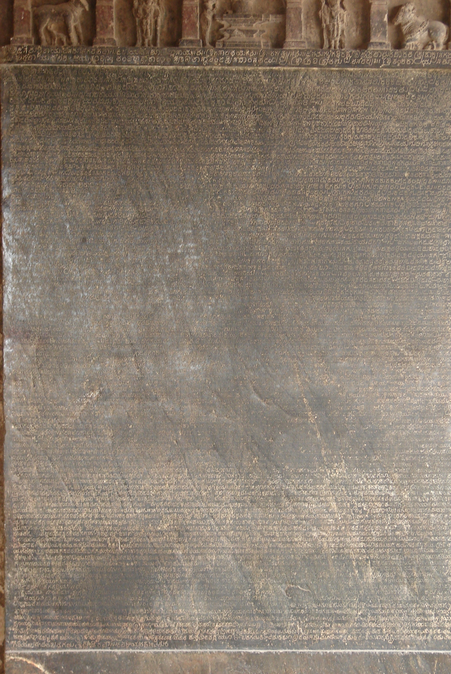 This photo of an old Kannada inscription dated 1112 CE (source:The Hindu Temple.vol 2, pg. 355, by Stella Kramrisch, Motilal Banarsidass Publ.,1976, ISBN 81-208-0224-1 ) (of Western Chalukya king Vikramaditya VI) was taken by self (Dinesh Kannambadi) at the 12th century Mahadeva temple in Itagi, Koppal district, Karnataka state, India in July 2007